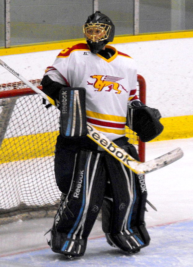 Photo taken by Devan Mighton of CIS men's hockey.